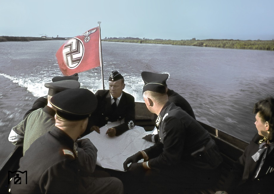 Albert Ganzenmüller (Center, with map) with his staff and secretary on the Dnieper River (July 1943). Ganzenmüller, Deputy State Railroad Director and State Secretary in the Reich Transport Ministry, inspected the progress of railway construction work in the area of Kherson. There, nearby the town of Aleshki (Russian: Алешки, 1928 renamed to Tsiurupynsk), the largest railway war bridge of the second world war is created in 1943. It is built by German railway pioneers.